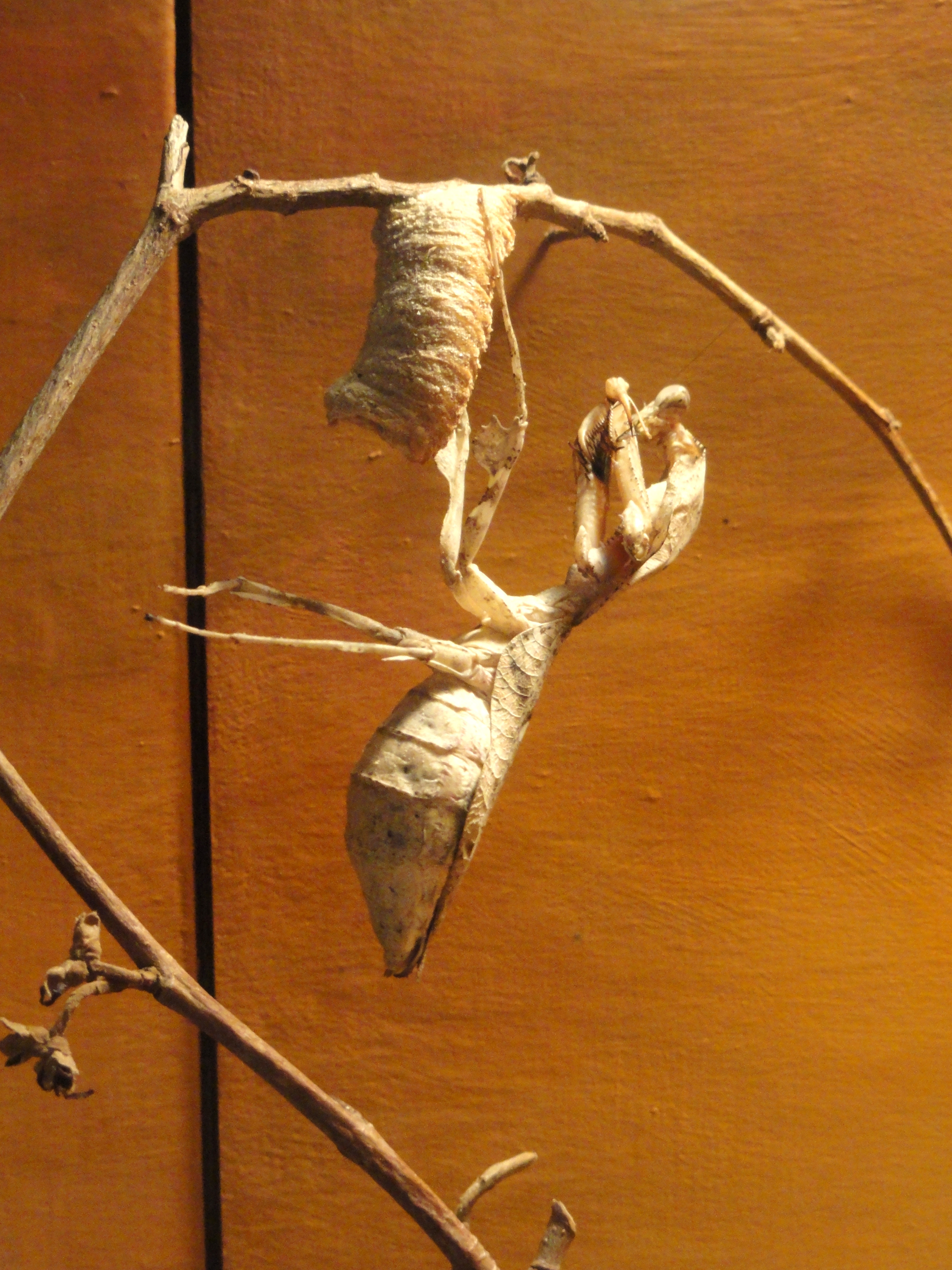 Exhibit in the National Museum of Natural History, United States, in Washington, DC, USA.